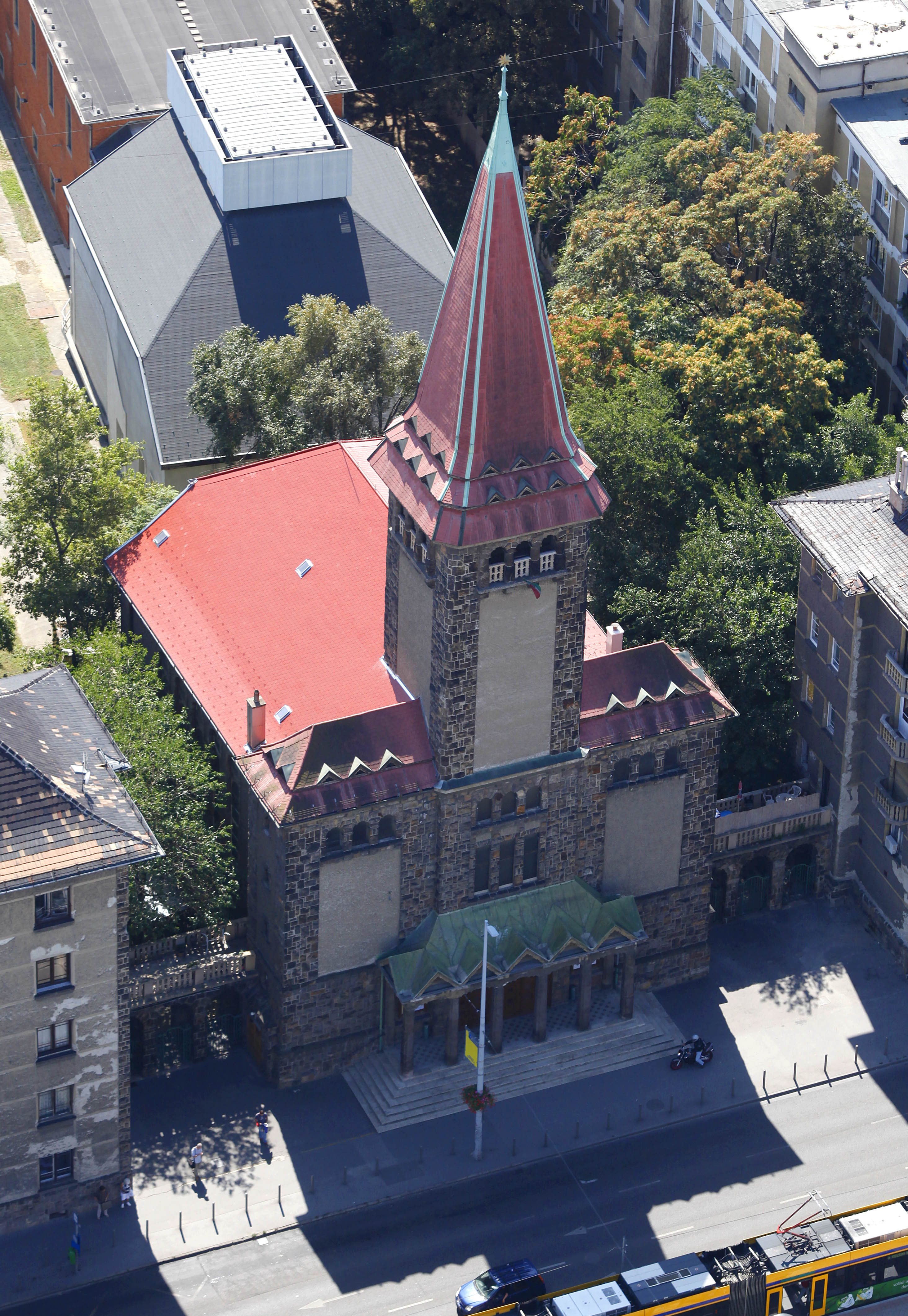 Temple, Budapest, Hungary, aerial photograph